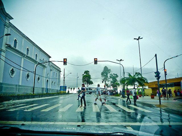 Urban traffic in São José dos Campos, São Paulo, Brazil.